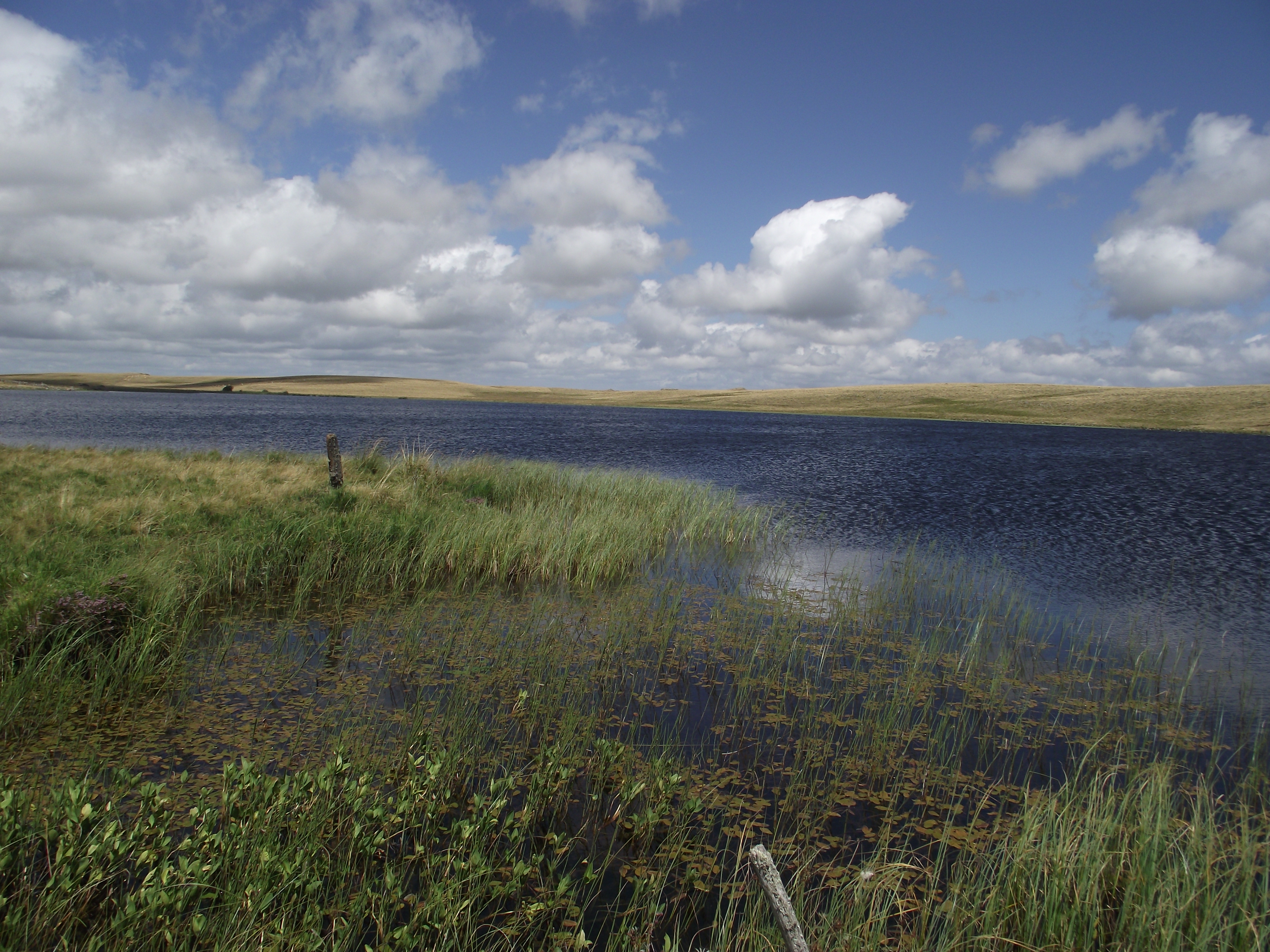 Lake of Saint Andéol on the Aubrac plateau (Central massiv, France)